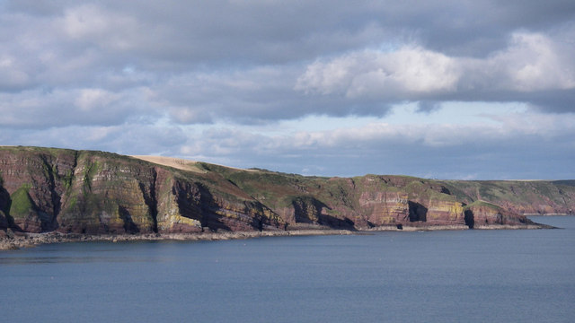 Greenala Point This view north from cliffs south of Stackpole Quay (SR 993 956) shows the coastline extending c. 1km west of Greenala Point (near right hand edge of photo). These cliffs are part of a Site of Special Scientific Interest (SSSI) extending from Stackpole Quay to Freshwater East. The cliffs and coastal slopes have been purchased by the National Trust as part of their 'Project Neptune' conservation programme. The Pembrokeshire coastline was designated as a National Park in 1952, and the coast path is a National Trail. This national park is the only one in the UK that is predominantly coastal. The ?Iron Age promontory fort at Greenala Point is a Scheduled Ancient Monument (SAM) Some detail on the geology is provided in my other Geograph photos of this coastline.